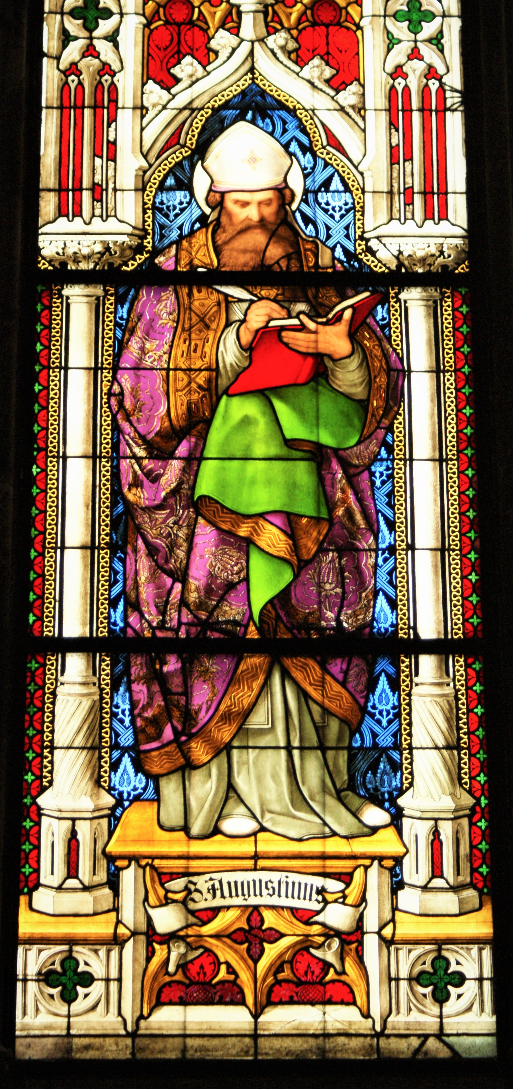 Window with picture of St. Anthony in Cologne Cathedral.